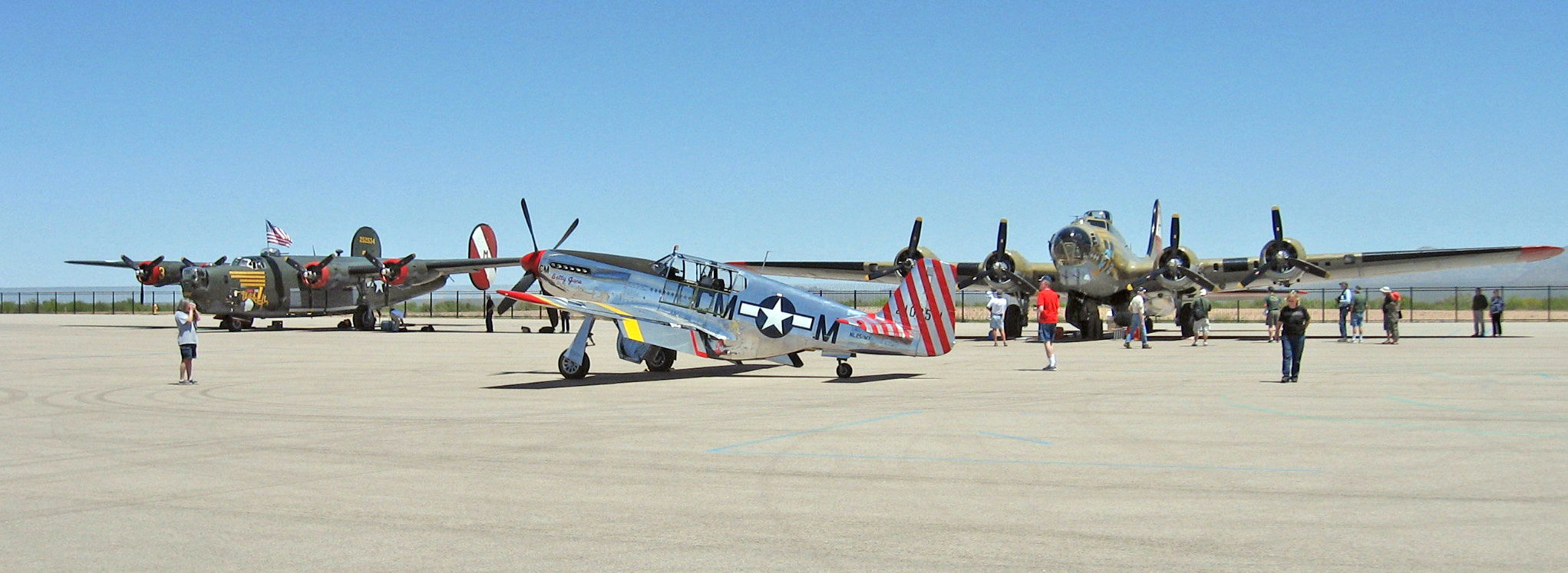 Collings Foundation's B-24 P-51 B-17